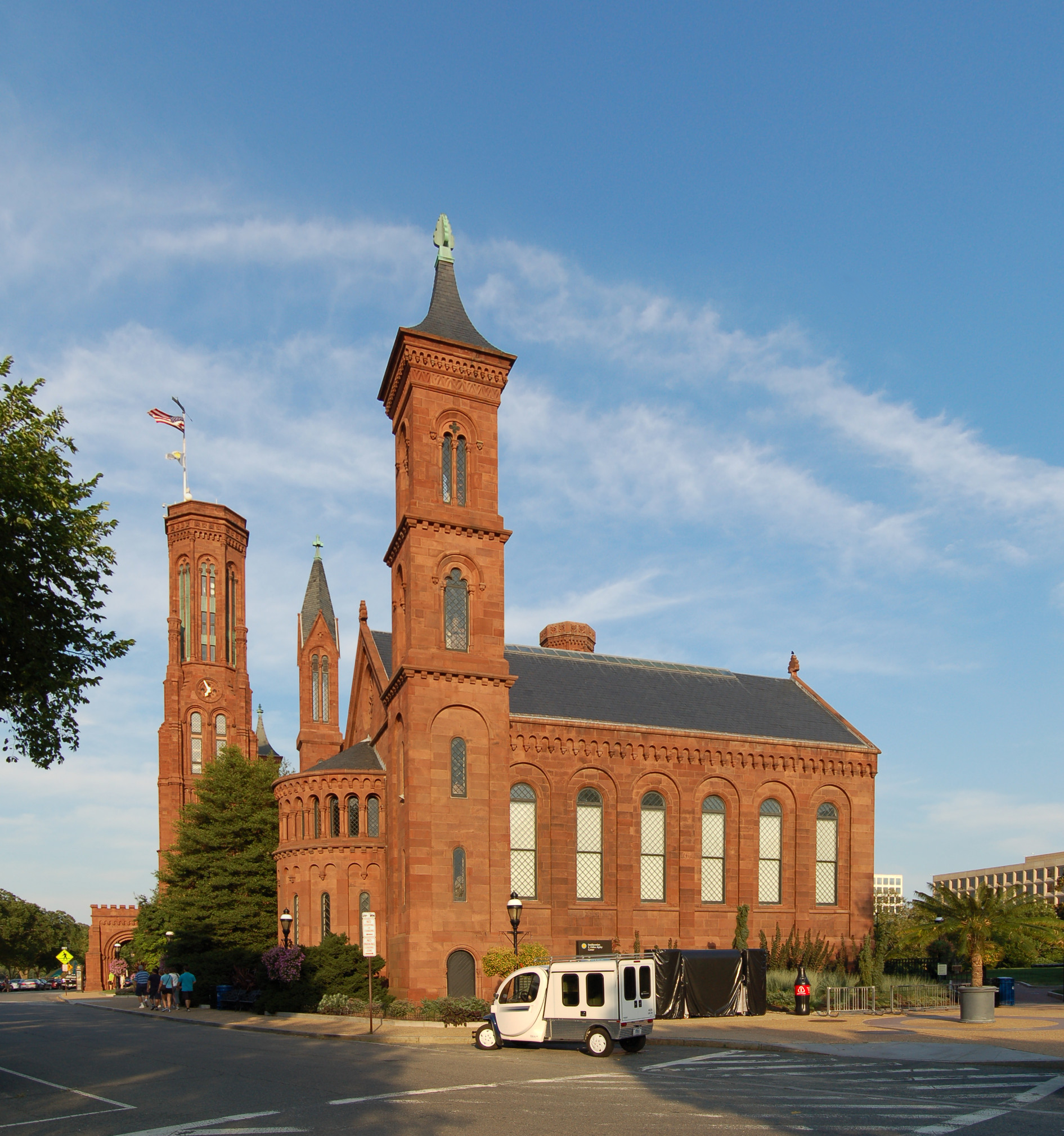 Smithsonian Building